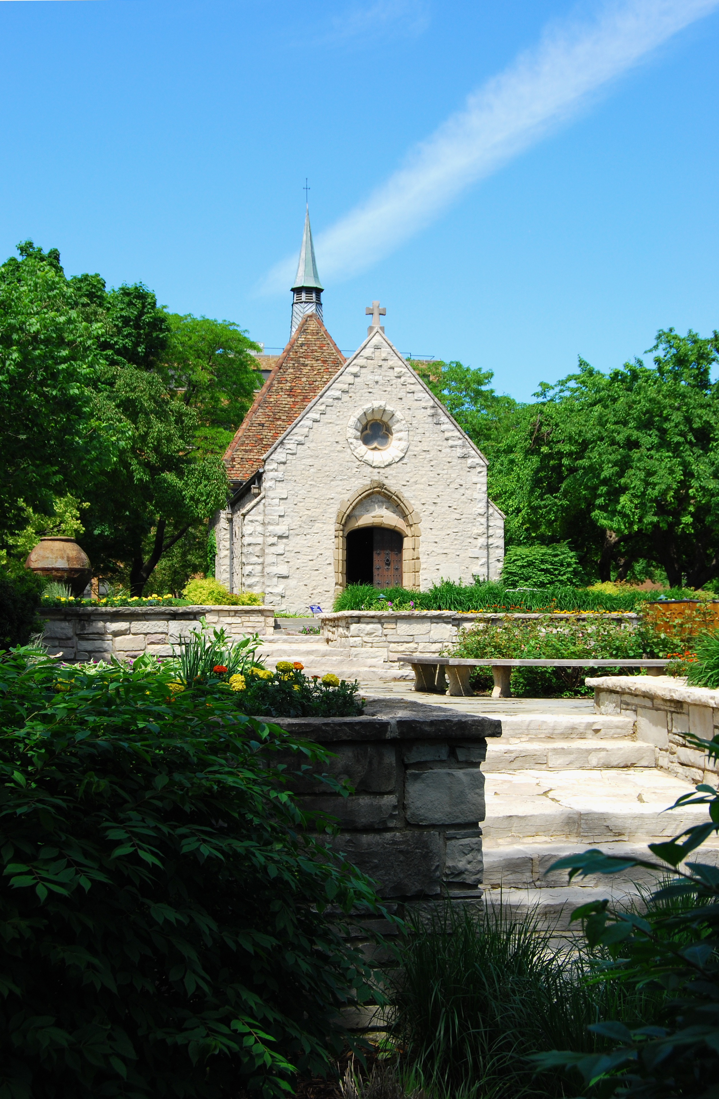 St. Joan of Arc Chapel on the Marquette University campus in Milwaukee, WI. © 2008 Matthew Hendricks (image self-created and owned by SCUMATT (talk) 03:37, 18 June 2008 (UTC); released under Creative Commons license)